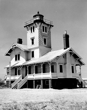 The Hereford Inlet Light is a lighthouse located in the, in North Wildwood, New Jersey, situated on the southwestern shore of Hereford Inlet.